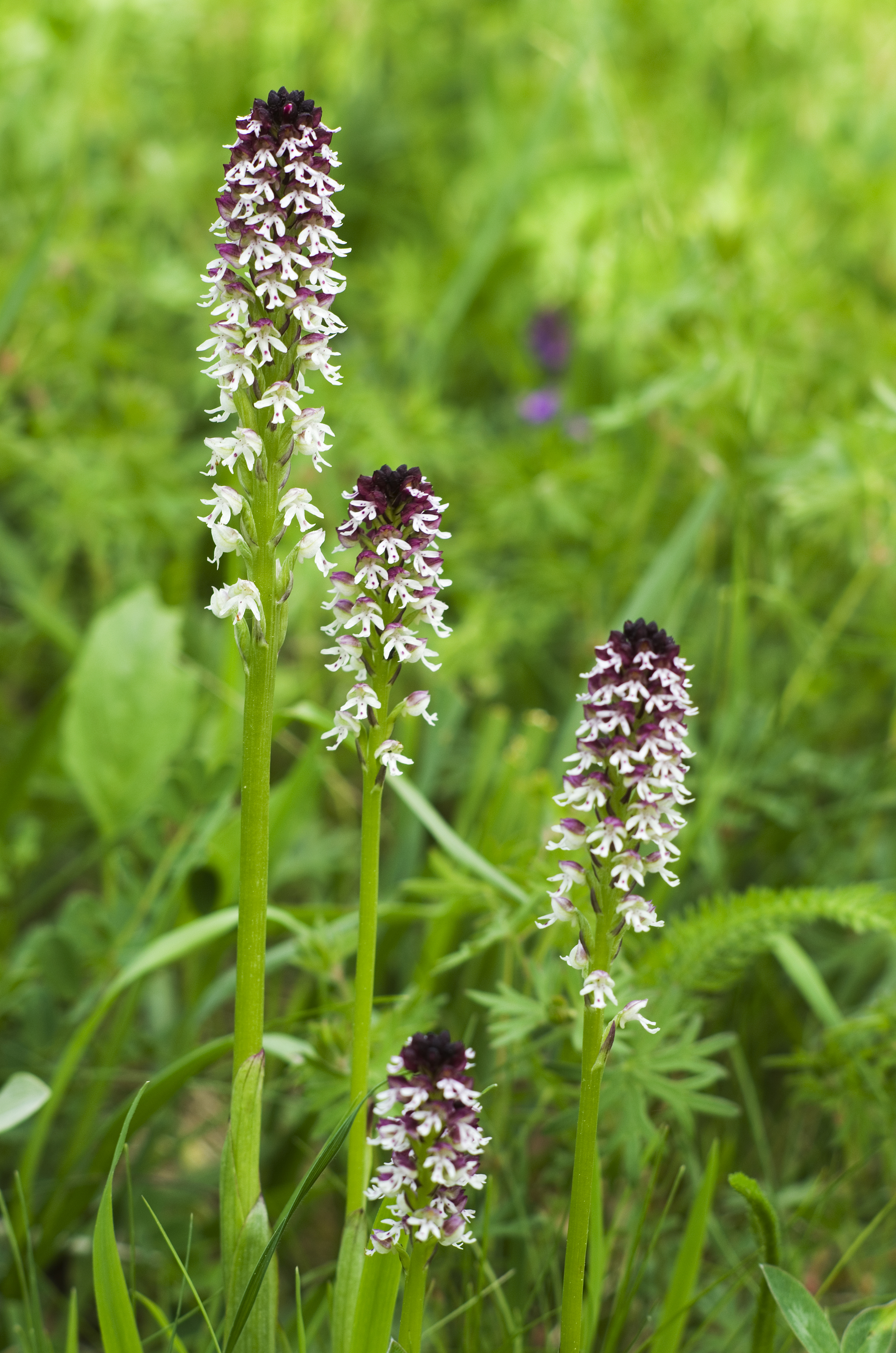 Neotinea ustulata (Orchis ustulata), Burnt orchid or Burnt-tip orchid at Central European locality Stráně u Drahobuzi.